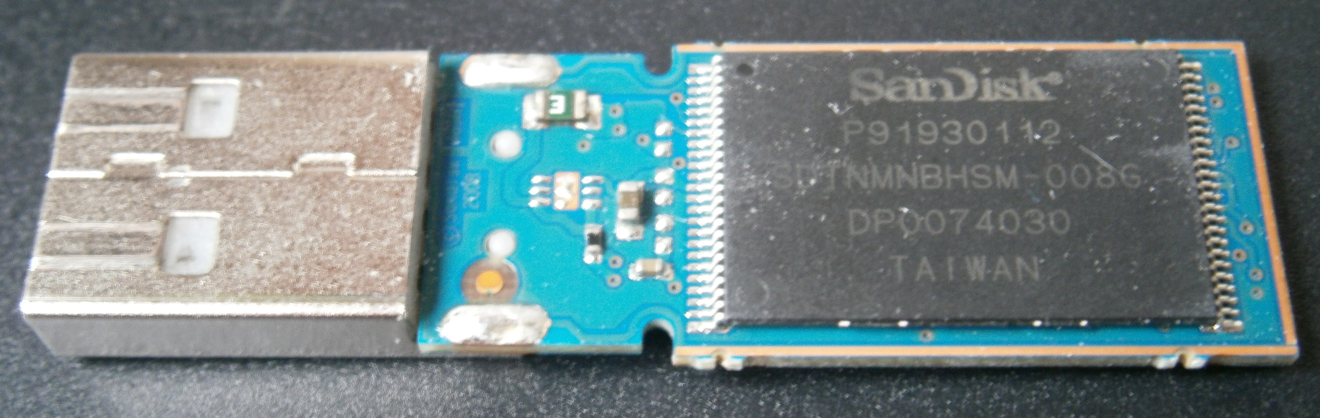 A USB stick with the casing removed.